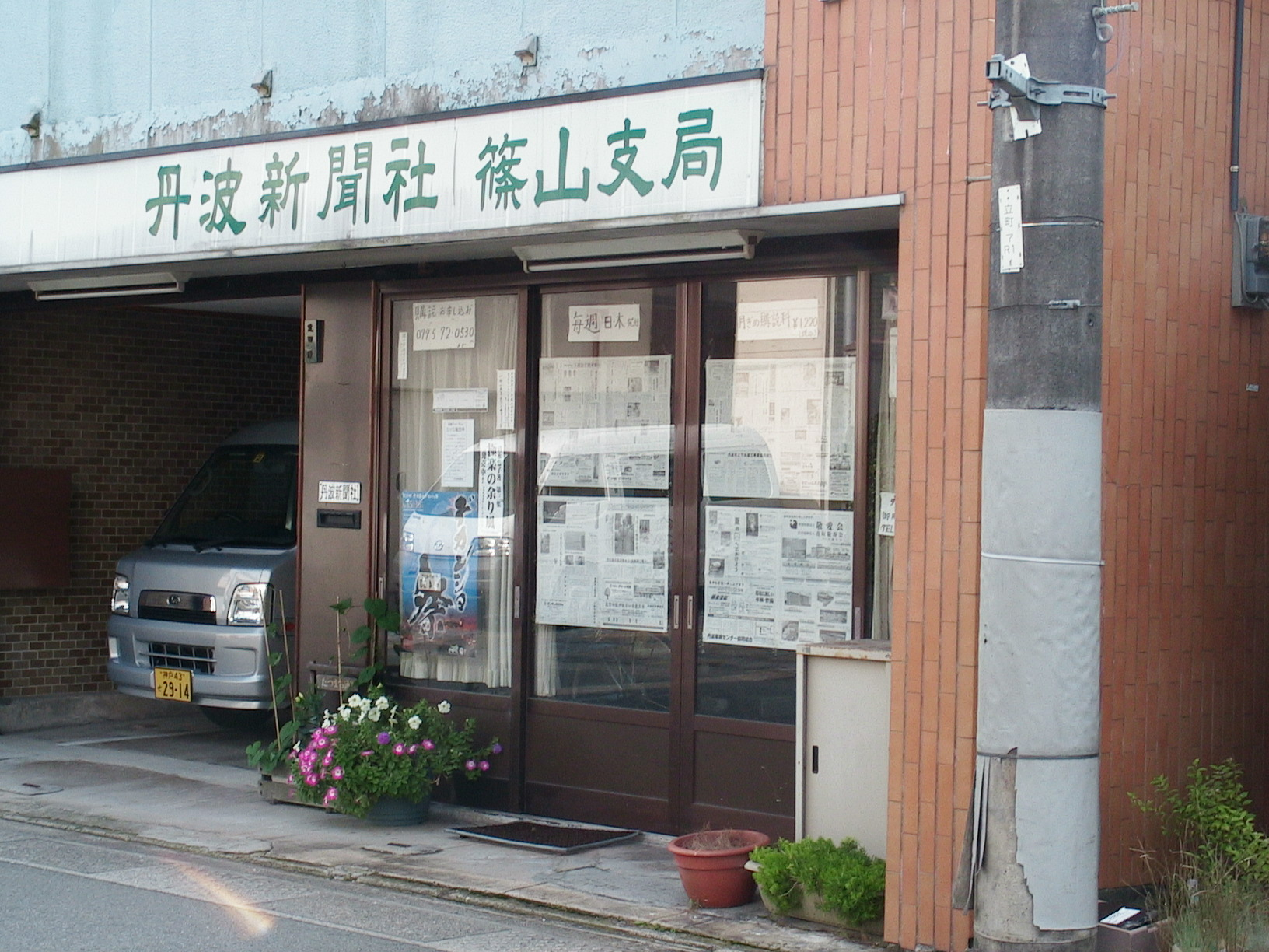 Tamba Saasayama bureau newspapers.jpg